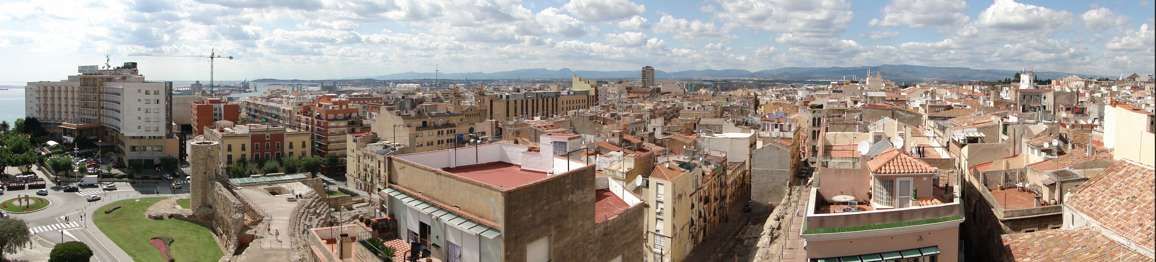 Panoramic view of Tarragona, Catalonia, Spain